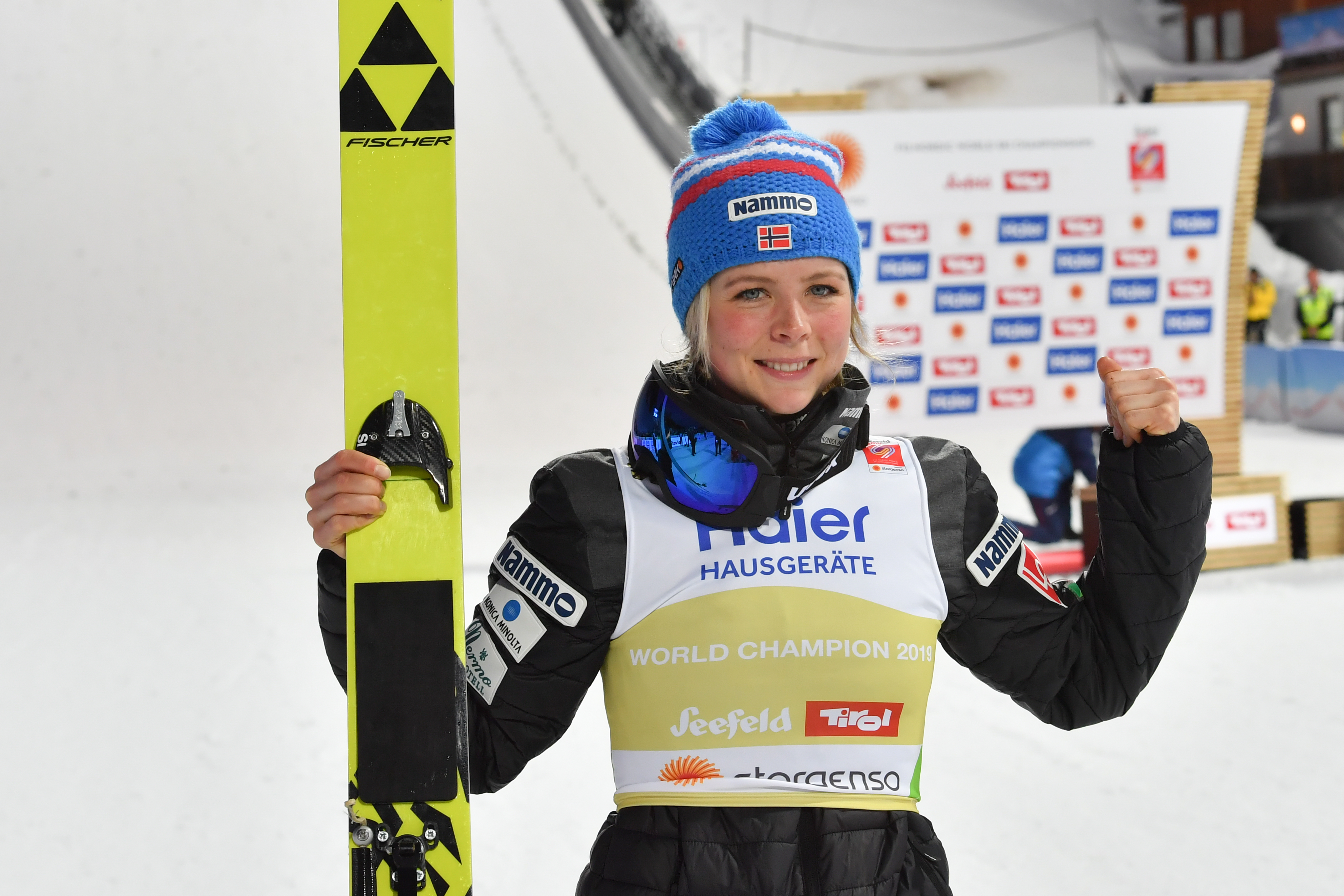 Seefeld, February 27, 2019: FIS Nordic World Ski Championships, Ski Jumping Ladies HS 109.